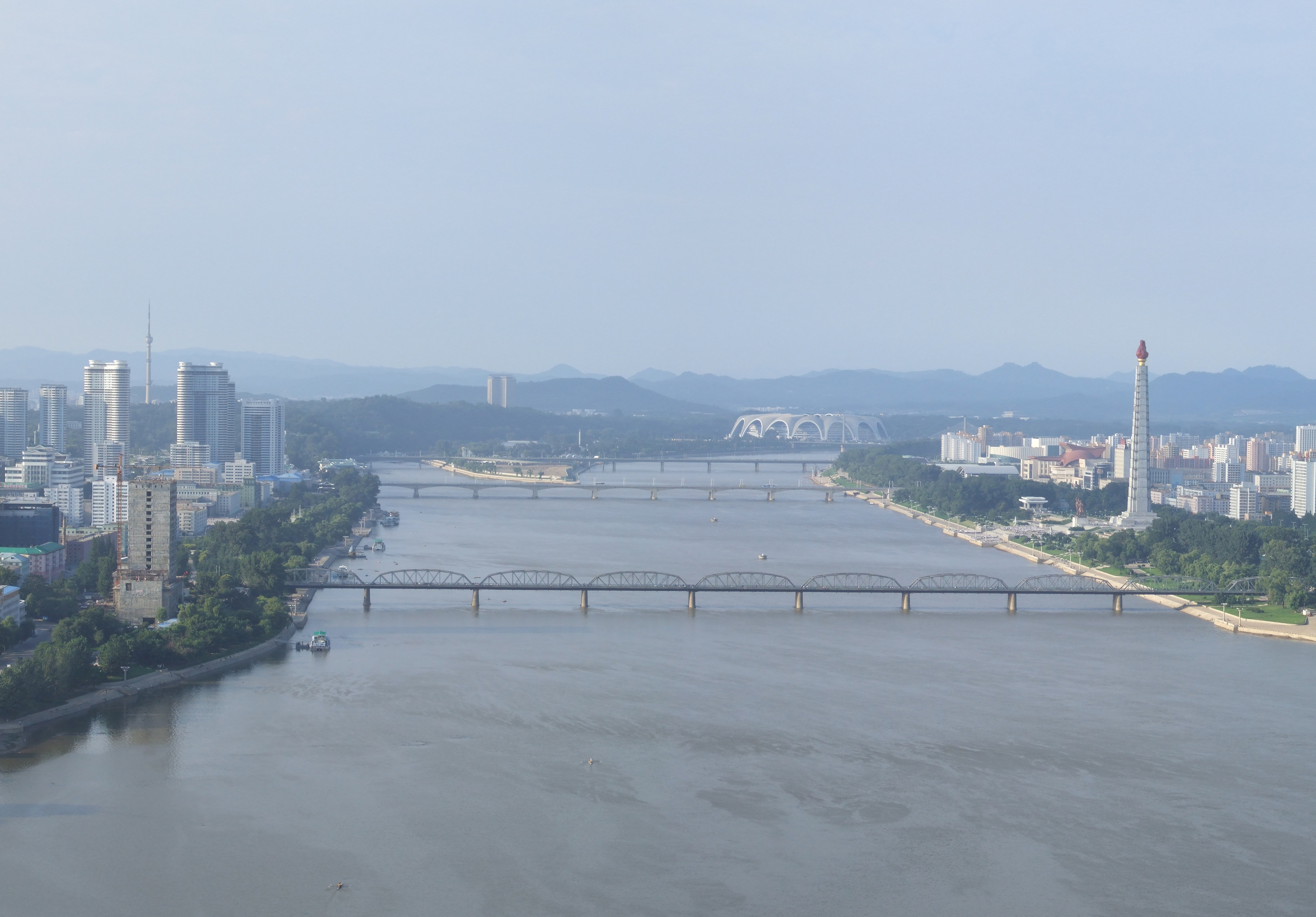 Taedong bridge in Pyongyang